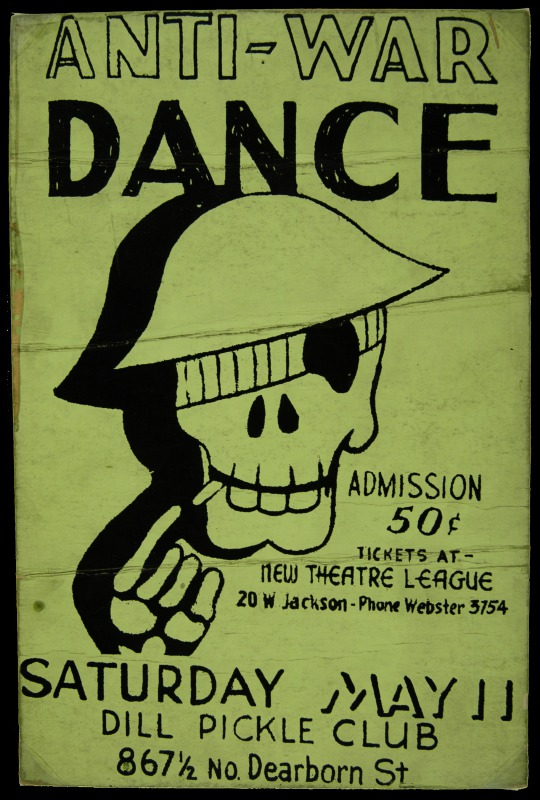 Handbill promoting an event at the Dill Pickle Club in 1918.